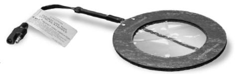 bdi-alarmsystem for rupture disc